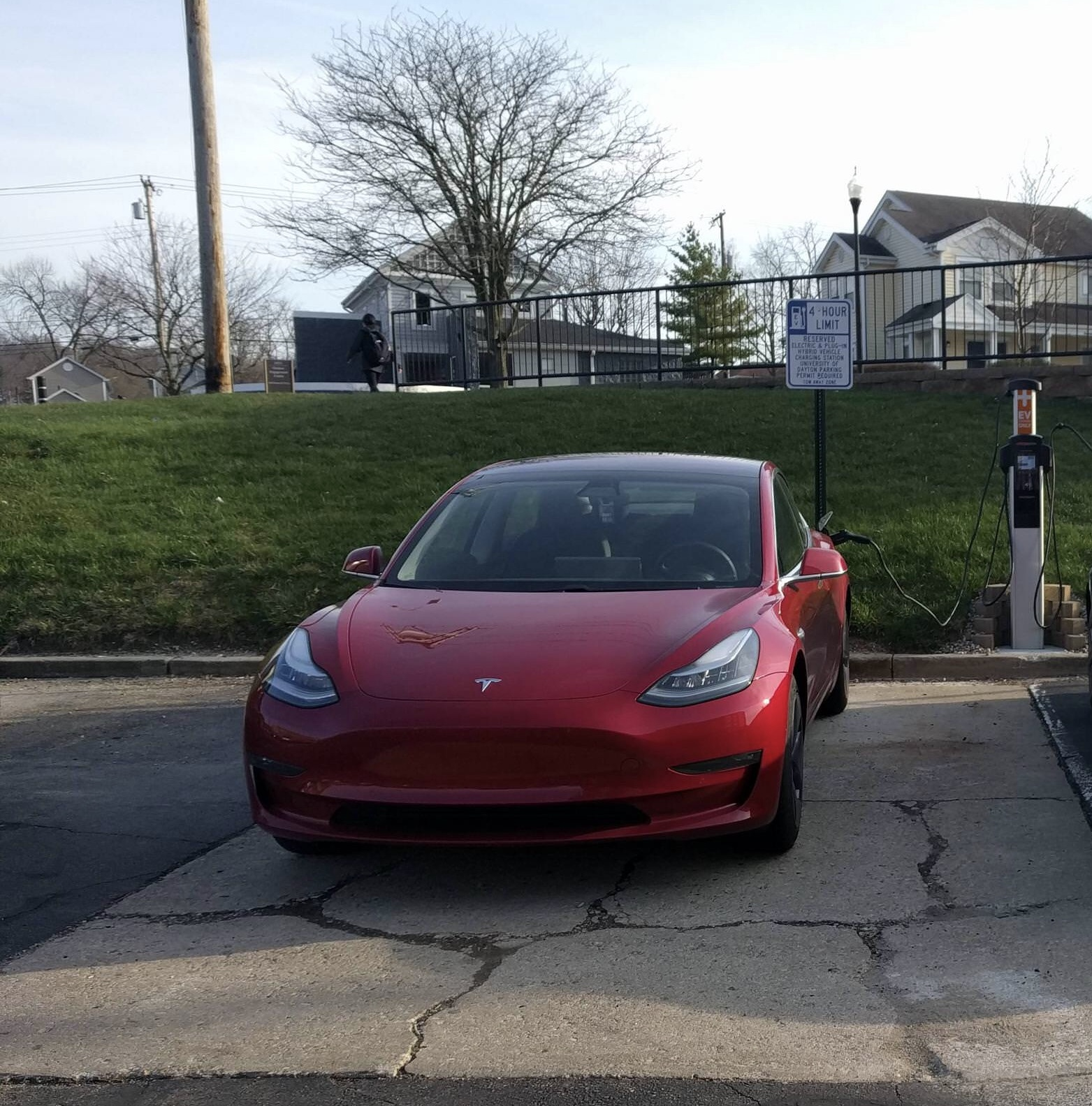 A red Tesla Model 3 charging at the University of Dayton in Ohio.